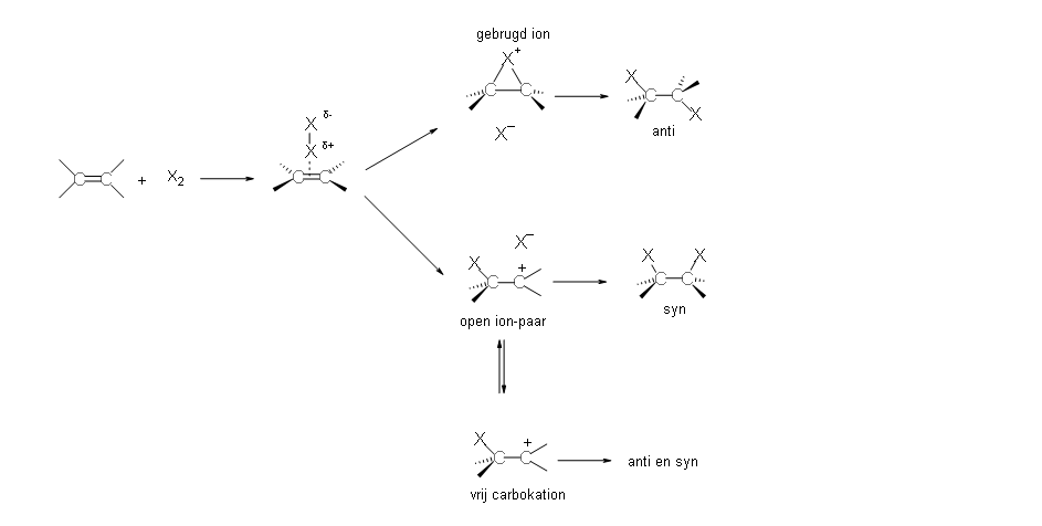 Mechanisms for halogen addition to alkenes